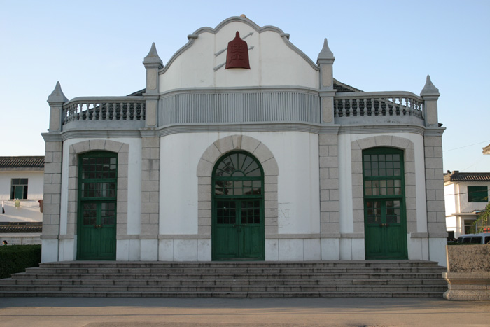 Auditorium